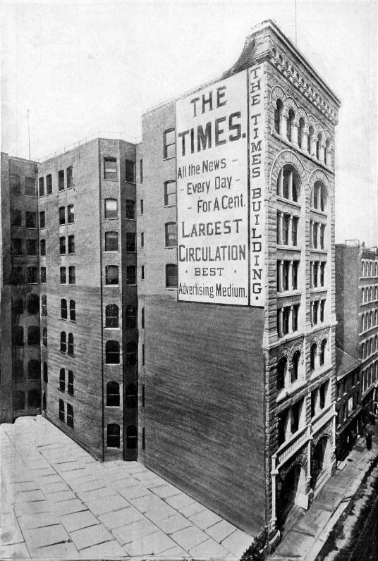 1890s picture of the Times Building, located at 336 Fourth Avenue in downtown Pittsburgh, Pennsylvania, United States. Completed in 1892, the building was designed by architect Frederick J. Osterling to house The Pittsburg Times newspaper.